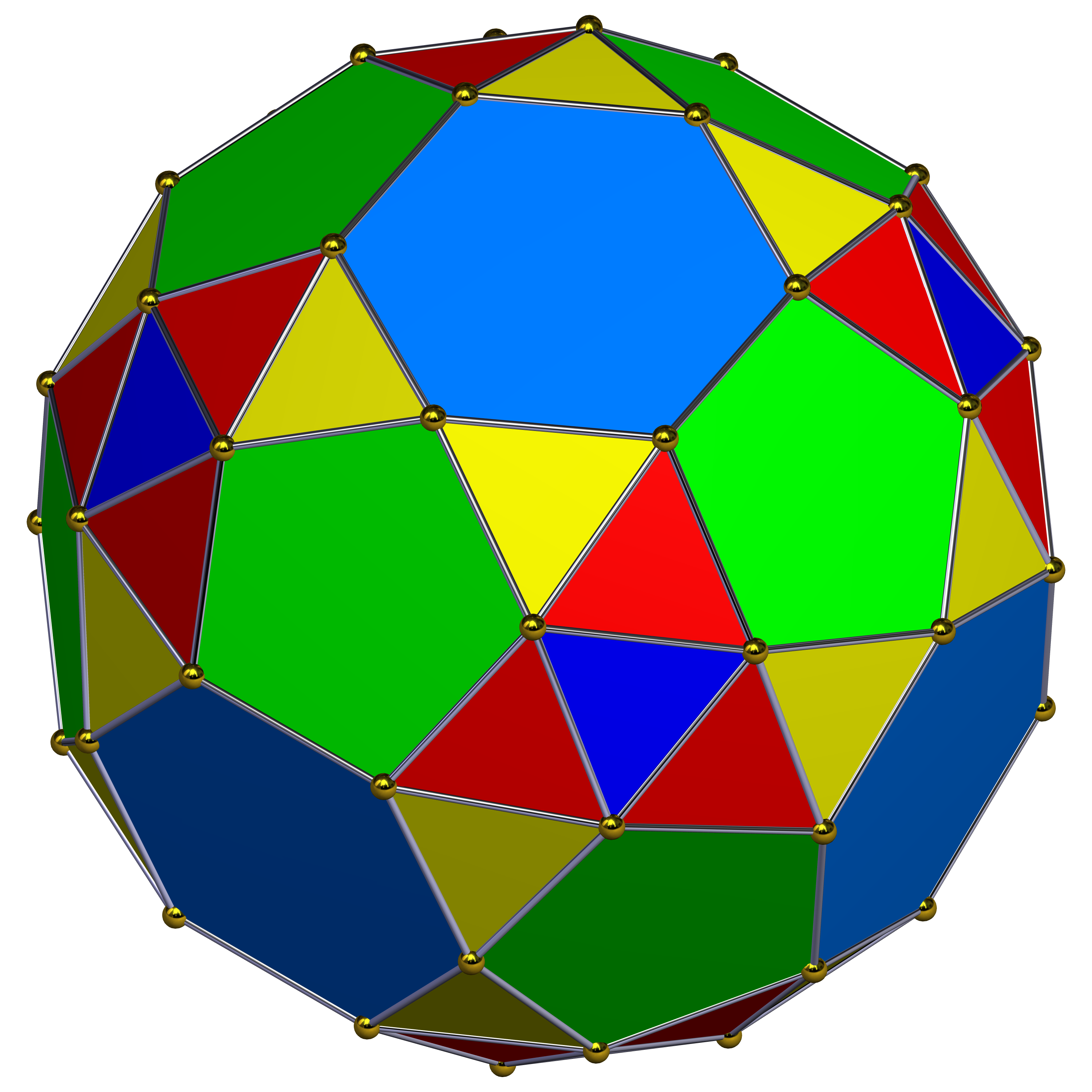 model Pyritohedral near-miss Johnson solid